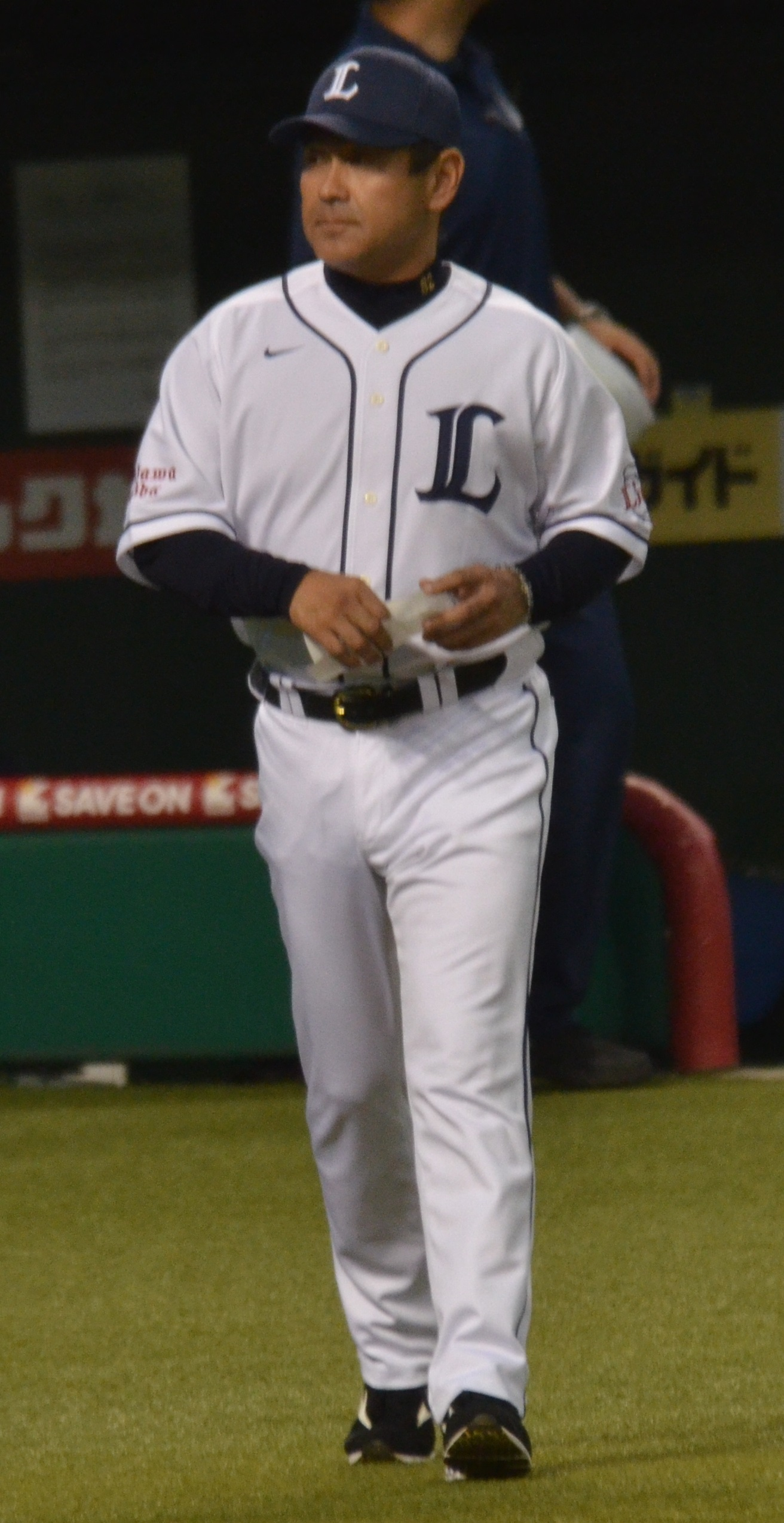 Norio Tanabe, interim manager of the Saitama Seibu Lions, at Seibu Dome.